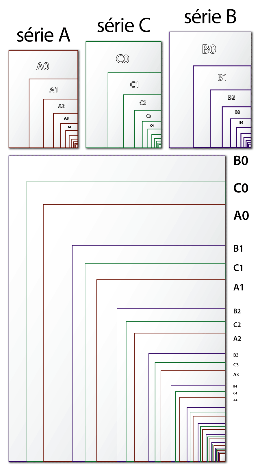 Paper dimension comparision of the series A, B and C as defined in ISO 216